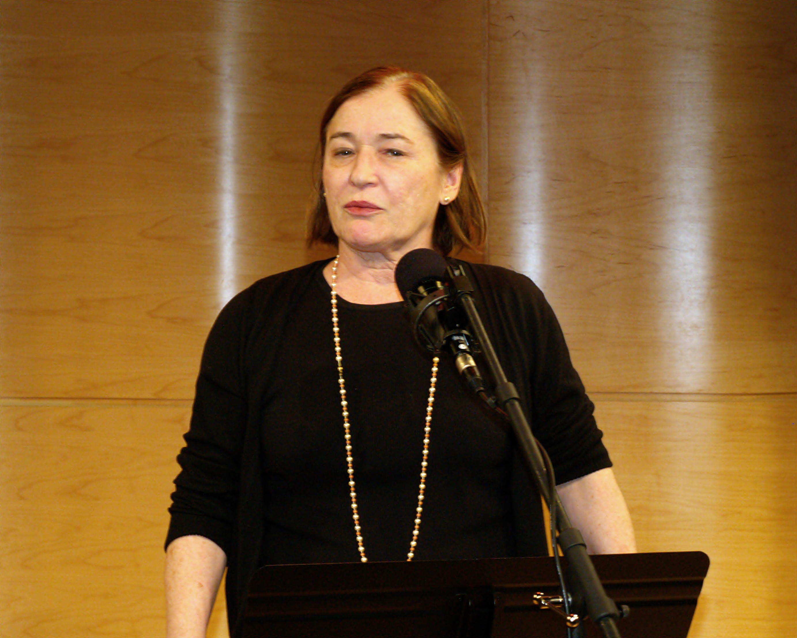 Joan Acocella announcing the winner of National Book Critics Circle's Nona Balakian award for excellence in reviewing.